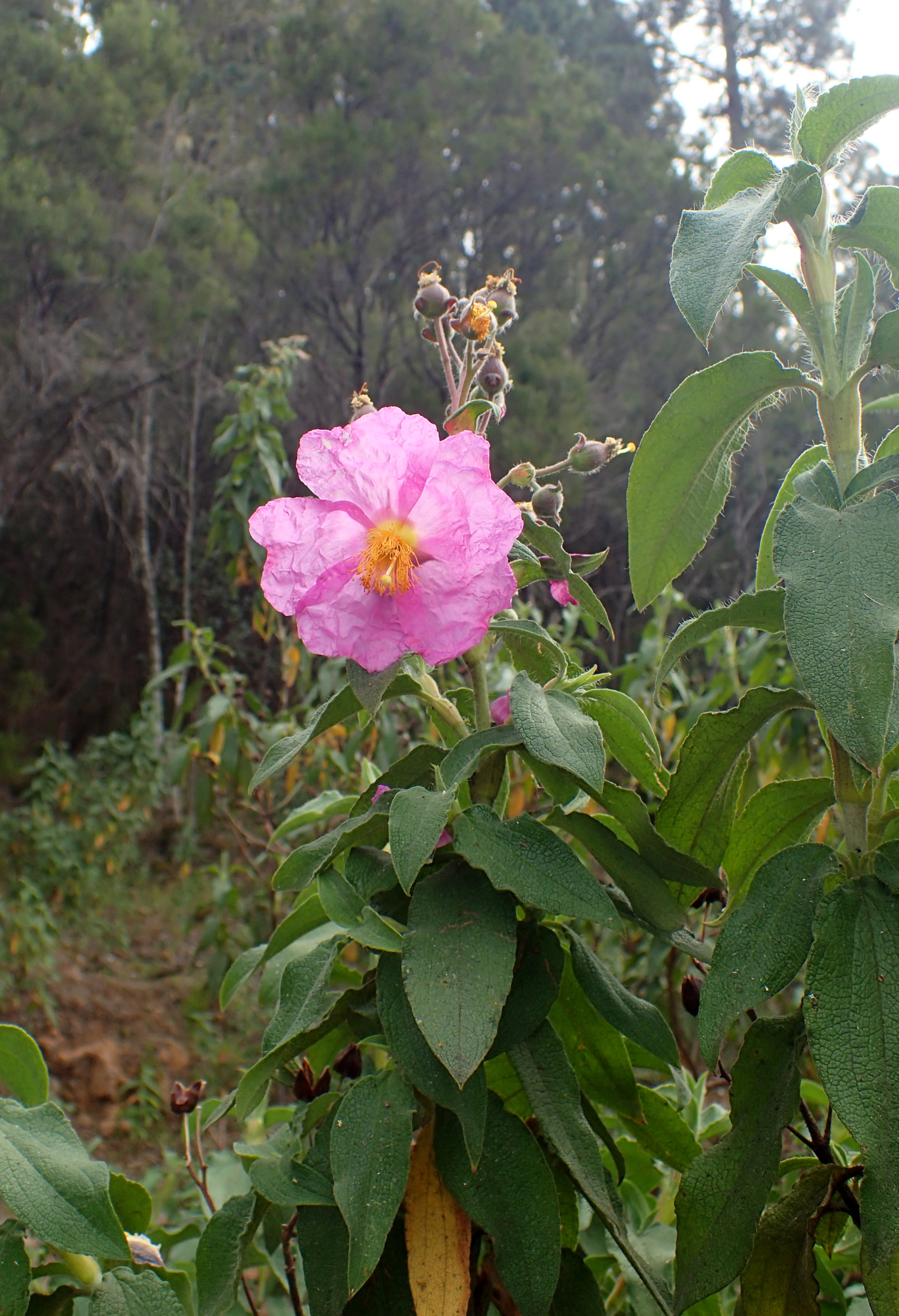 Cistus symphytifolius at Mirador de la Palma on Tenerife, Canary Islands